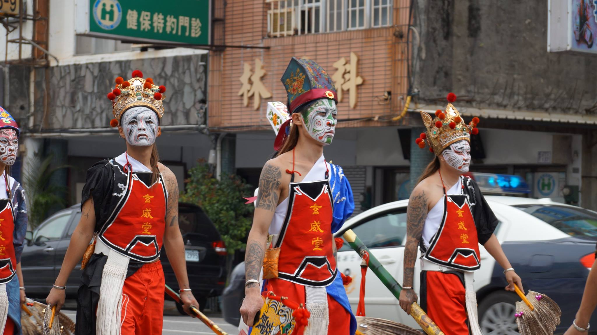 The eight generals